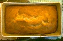 A picture of some bananna bread I made in a loaf pan